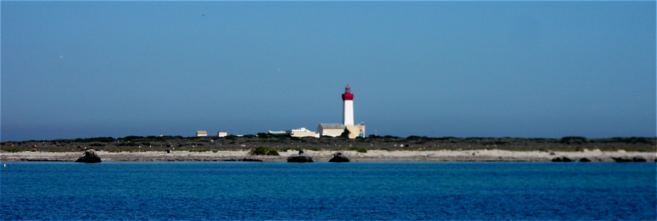 A general view of the Kuriat Island in Tunisie